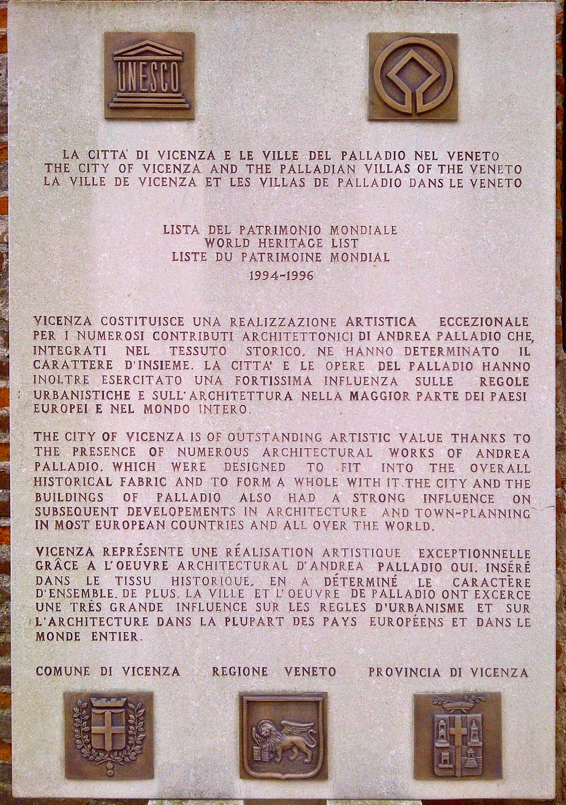 Plaque for the insertion of the city of Vicenza in the UNESCO World Heritage List